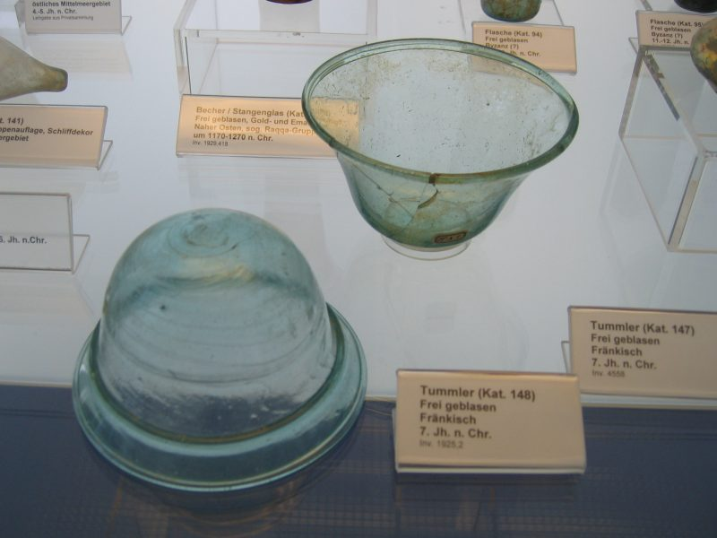 Two frankish glass beakers so called Tümmler 7. century